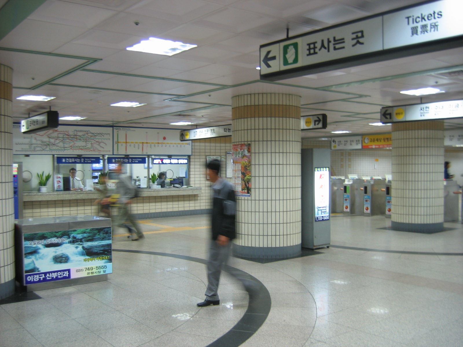 Korea National Subway Bundang Line YaTop Station Inner